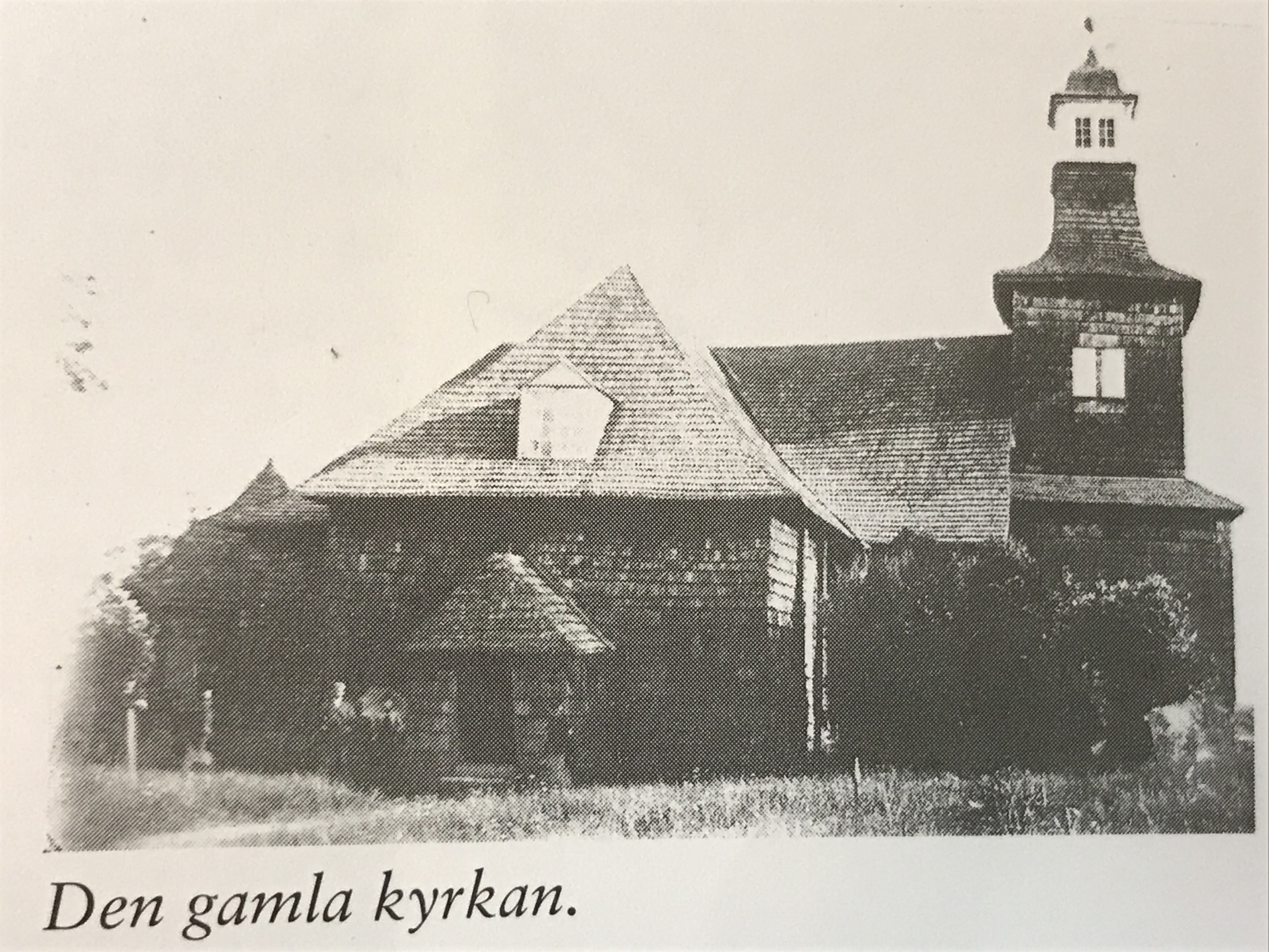 The old church